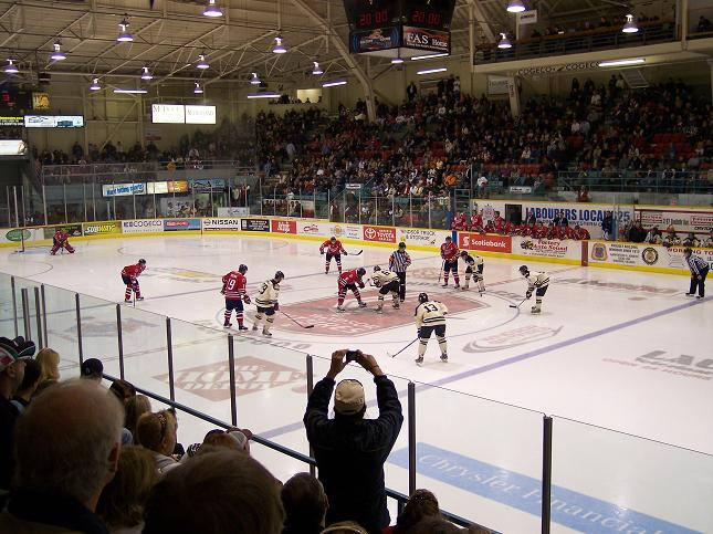 Self-taken photo, Windsor Arena - Windsor Spitfires vs. Oshawa Generals